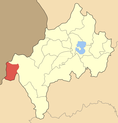 Locator map of Grammou community (Κοινότητα Γράμμου) at Kastoria perfecture, Greece).